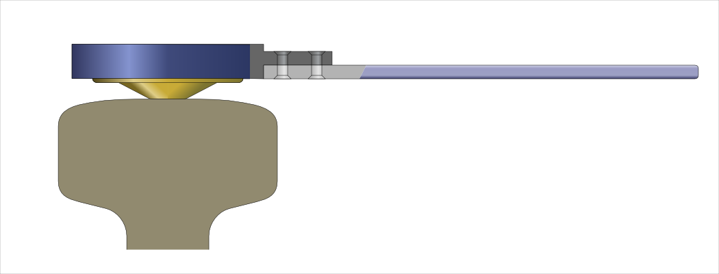 Detonator, CZ patent Nr. 75756 / 1946 with arm